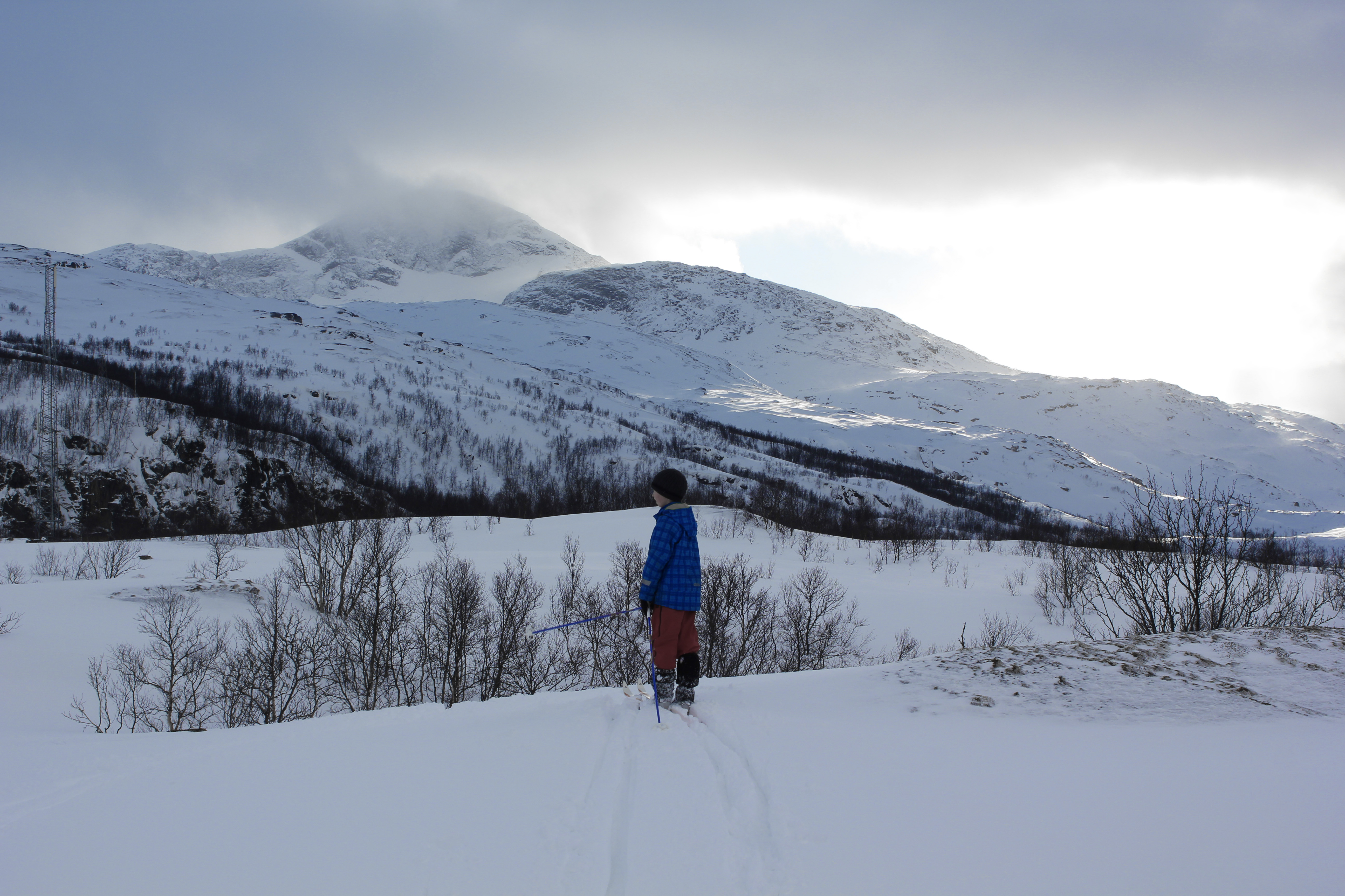 The mountain Sildviktind (1 360 m) in Narvik, Norway. Photo from near Katterat Railway Station.